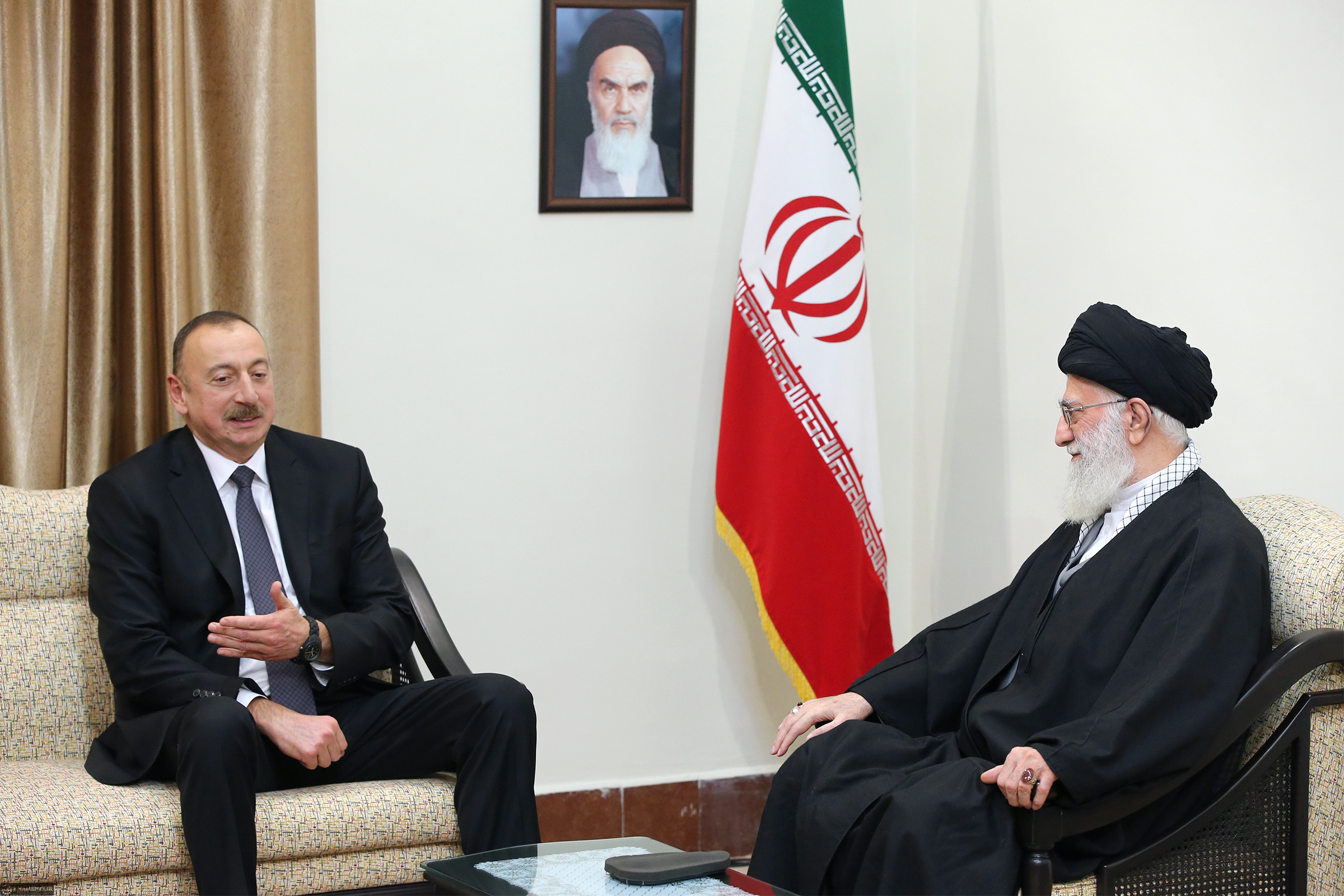 Ilham Aliyev meet Ali Khamenei - March 5, 2017